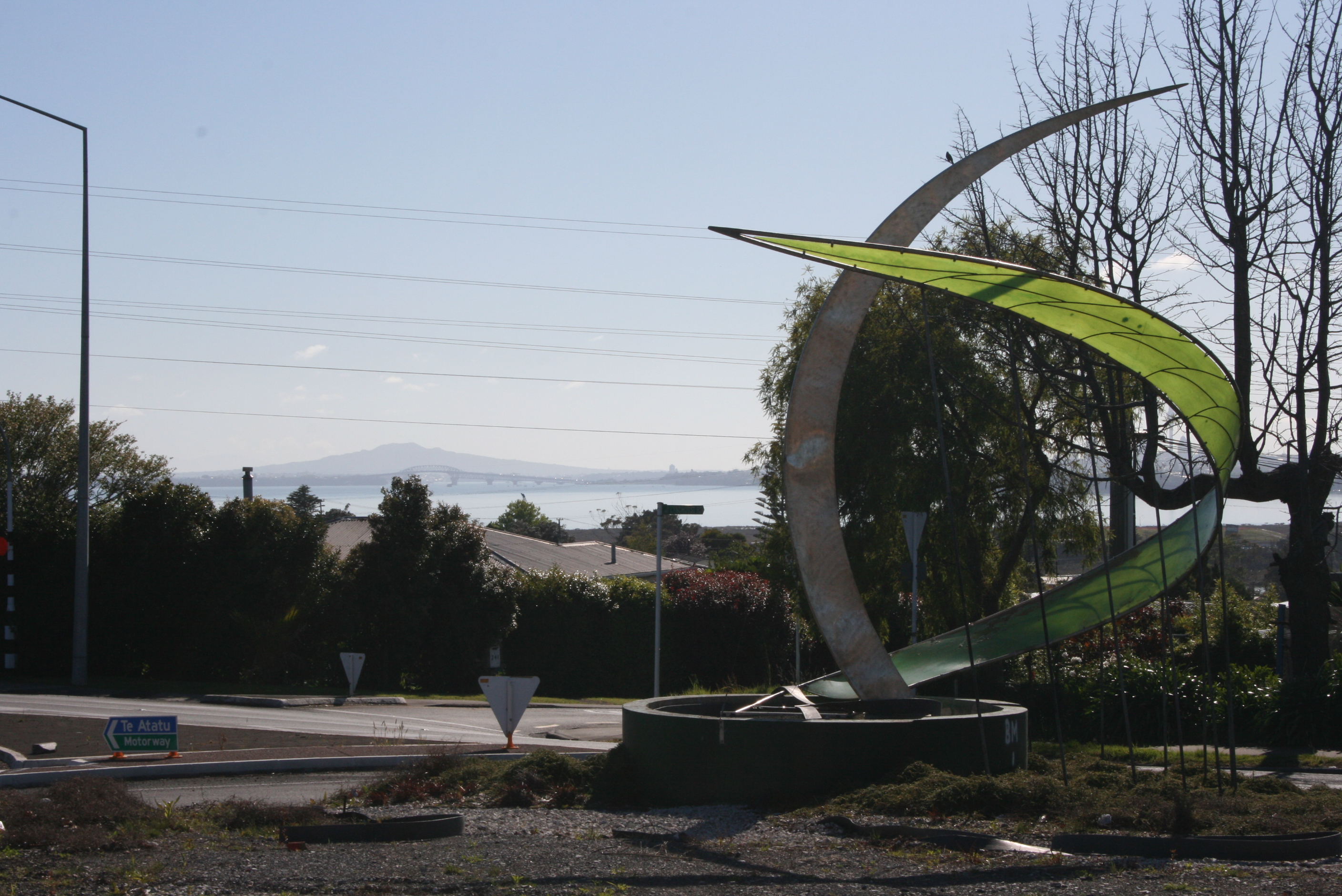 Wade Cornell sculpture. Location: Te Atatu South roundabout, Te Atatu Road and Edmonton Road. Rangitoto and Auckland Harbour bridge in background.